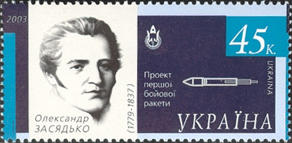 Stamp of Ukraine